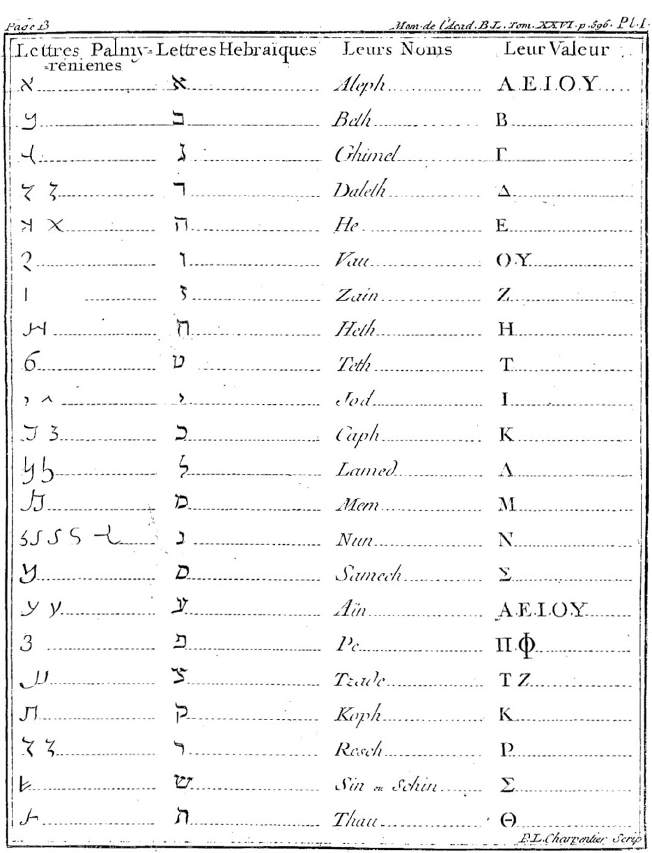 Barthélémy Alphabet palmyrien